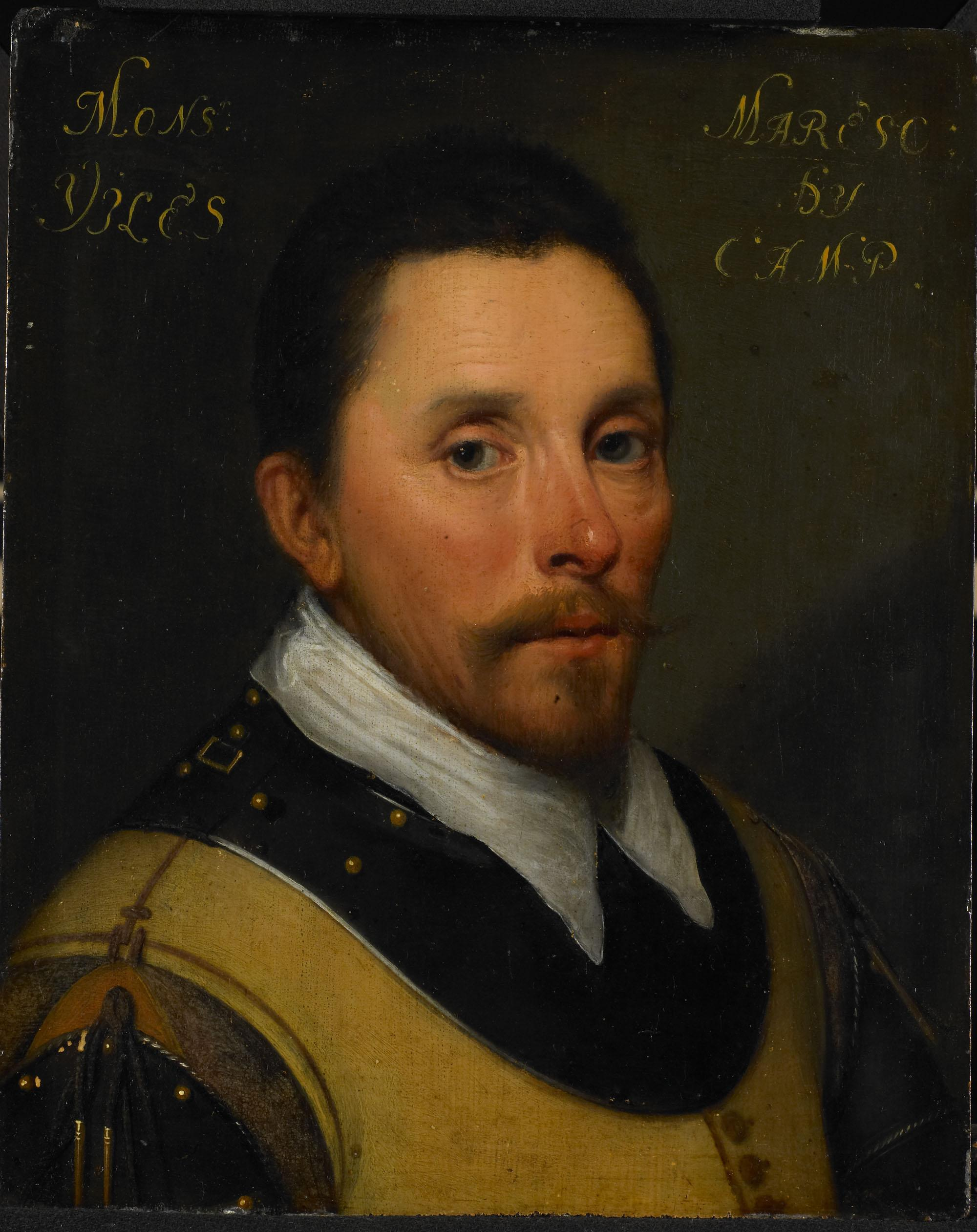 Portrait of Joost de Zoete de Laeke (1541-1589). Part of the Leeuwarden series, a series of portraits of military officials from the Eighty Years' War as well as members of the House of Orange-Nassau, first documented in 1633 in the Stadhouderlijk Hof (Stadholder's Court) in Leeuwarden (see Object history).